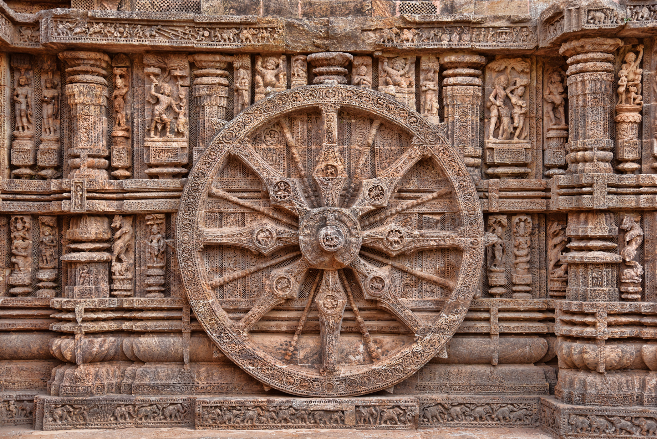 An Architecture Marvel of Eastern India and A symbol of India's heritage, Konark Sun Temple, commonly known as Konark is situated in the eastern state of Odisha (earlier known as Orissa), India and is one of the eminent tourist attractions. Konark houses a massive temple dedicated to the Sun God. The word 'Konark' is a combination of two words 'Kona' and 'Arka'. 'Kona' means 'Corner' and 'Arka' means 'Sun', so when combines it becomes 'Sun of the Corner'.